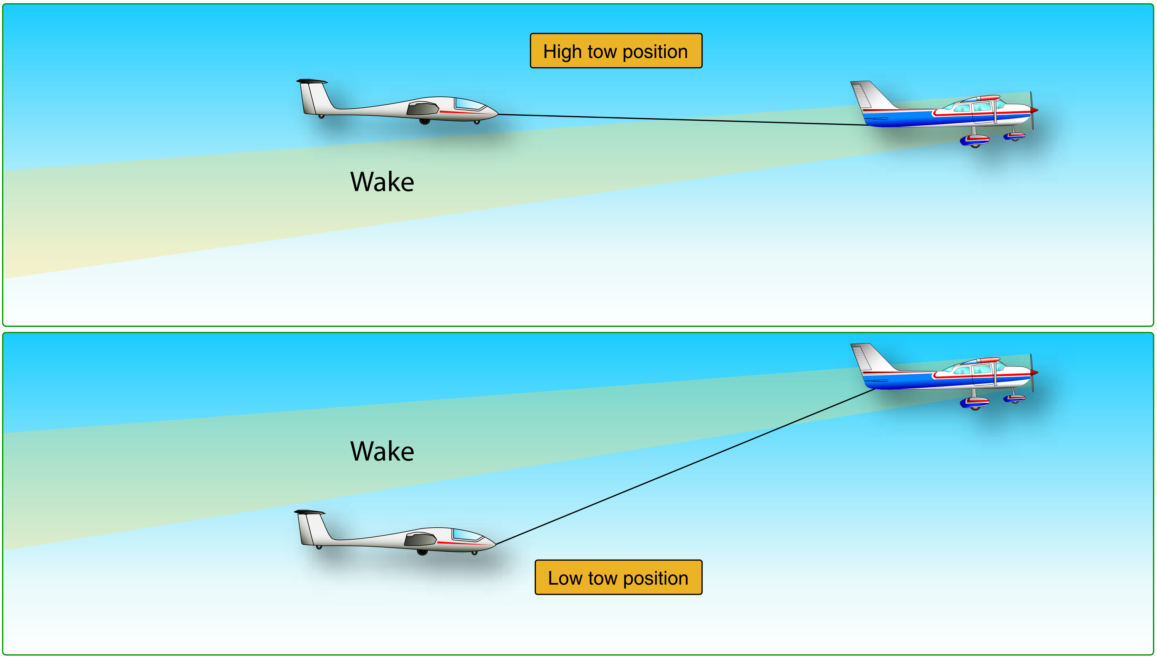 Once airborne and climbing, the glider can fly one of two tow positions. High tow is aerotow flight with the glider positioned above the wake of the towplane. Low tow is aerotow flight with the glider positioned below the wake of the towplane. [Figure 7-6]